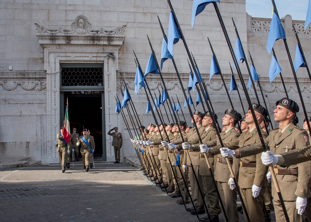 Italian Army - A honor guard from the Regiment "Lancieri di Montebello" (8th) salutes the flag of the Logistic Battalion "Cremona" as it is retrieved from the Shrine of the Flags in Rome by members of the Logistic Regiment Sassari